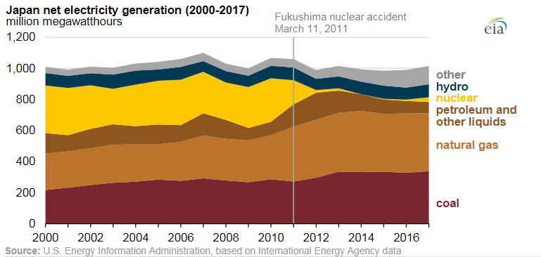 Coal’s share of electricity generation in Japan was higher in 2018 than it was before the 2011 Fukushima nuclear accident. In 2010, coal accounted for 25% of Japan’s electricity generation, and nuclear generation accounted for 29%. June 14, 2019